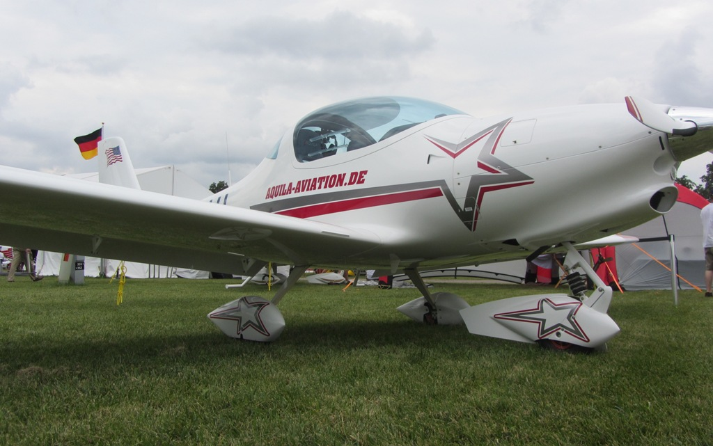 Aquila A211